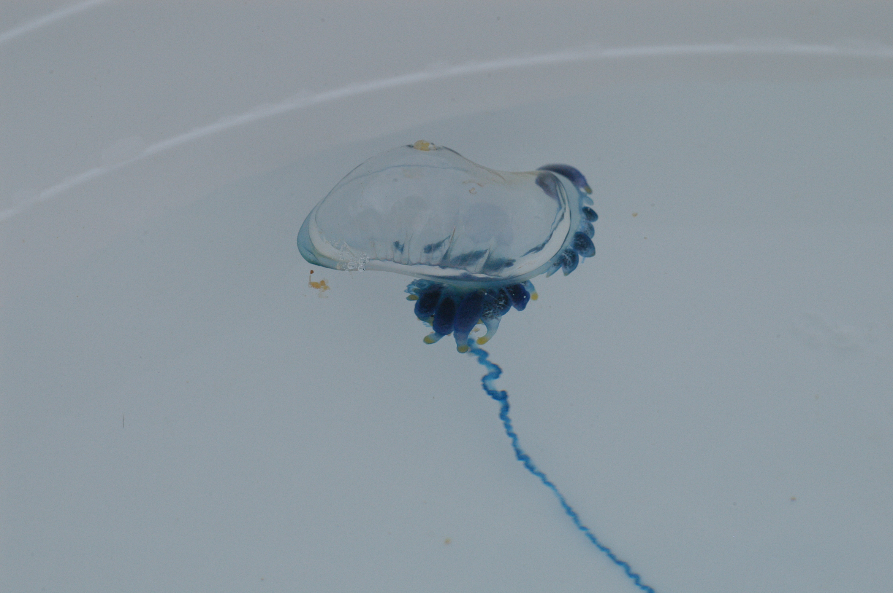 Bluebottle at MacMasters Beach